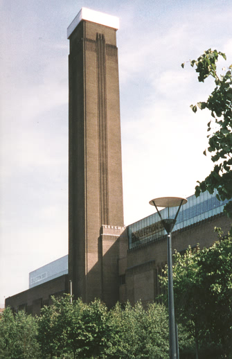 Tate Modern Gallery (Outside) Photo taken by D.Alston (You are free to copy and use photo)